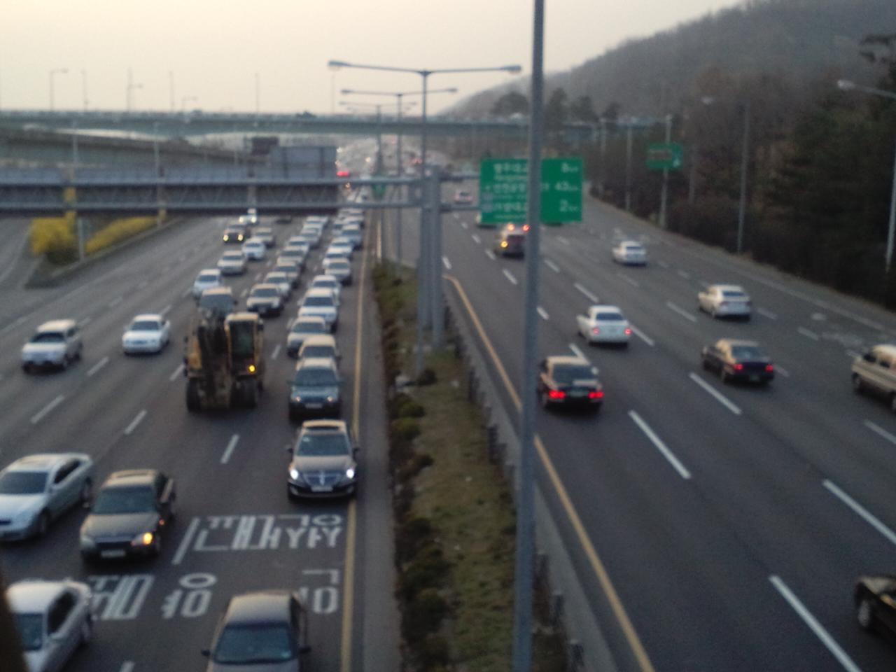 Seoul sido 70th